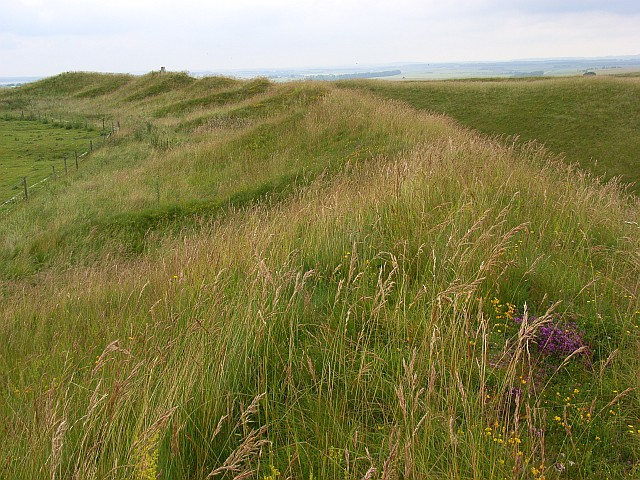 Yarnbury Castle The hill-fort consists of two banks separated by a deep ditch. There's a trig point on the inner bank, just seen here. The purple flower is wild thyme.